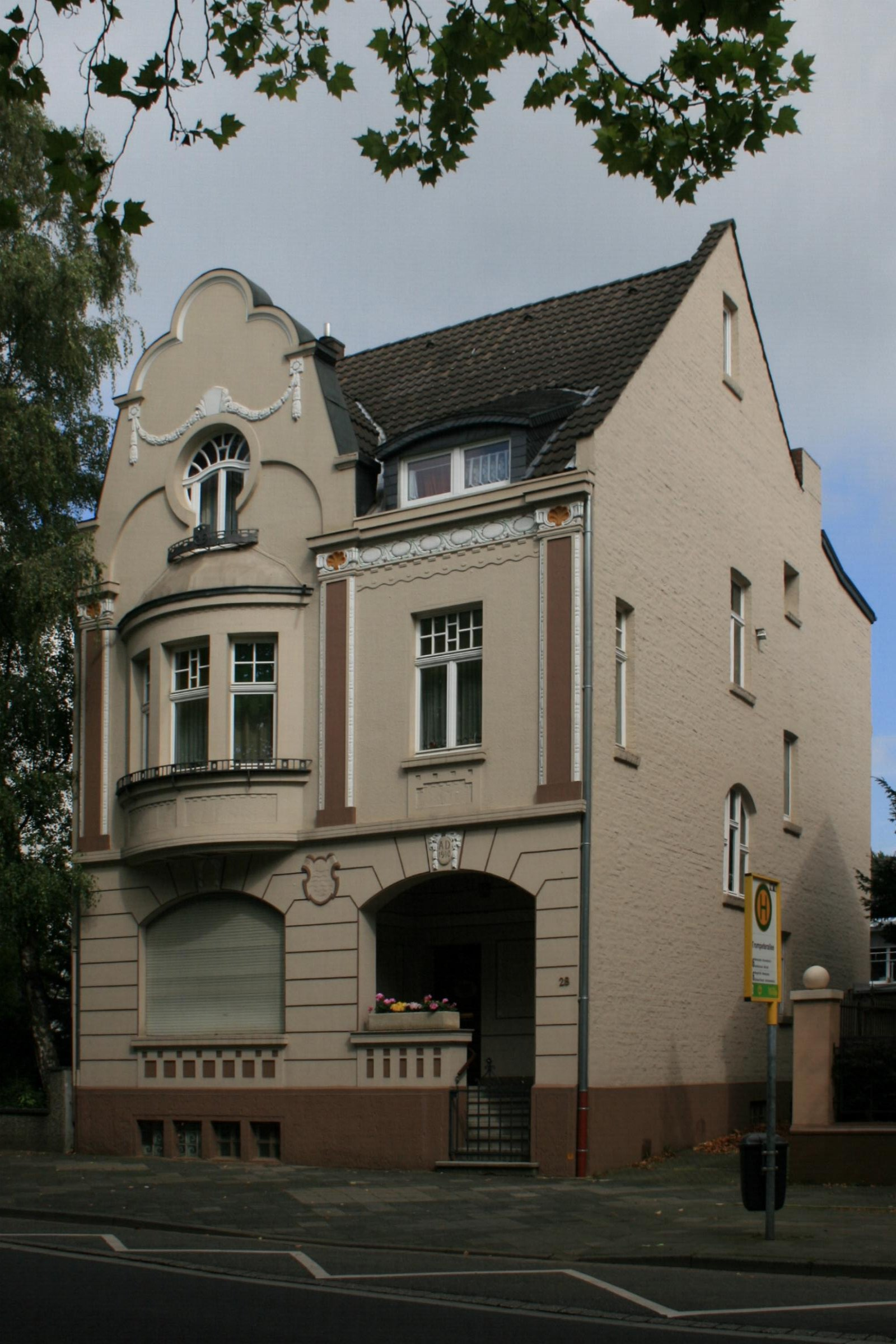 Cultural heritage monument No. T 016 in Mönchengladbach